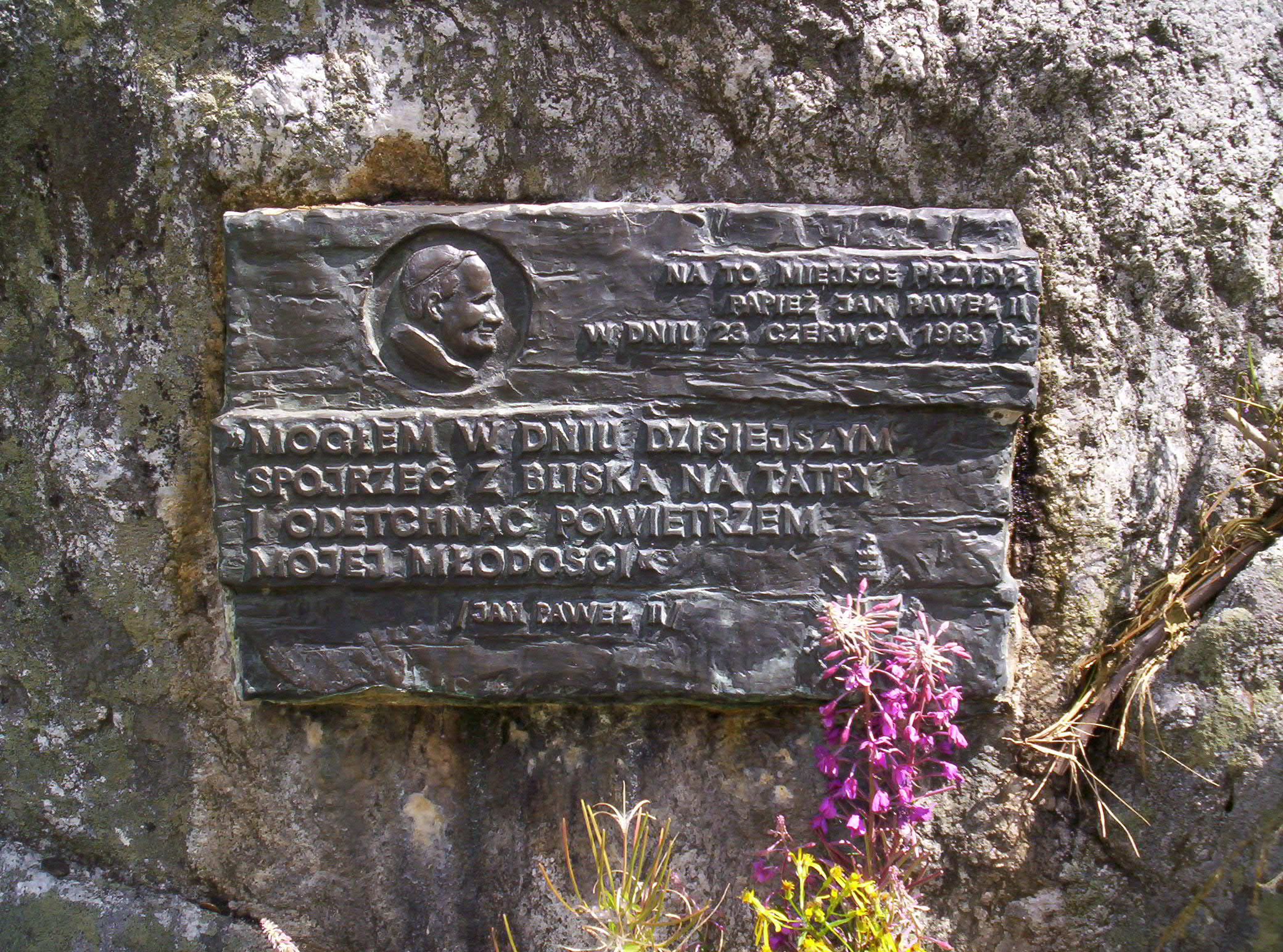 Memorial board on end of papal route in Tatra Mountains